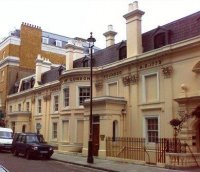 fpm office